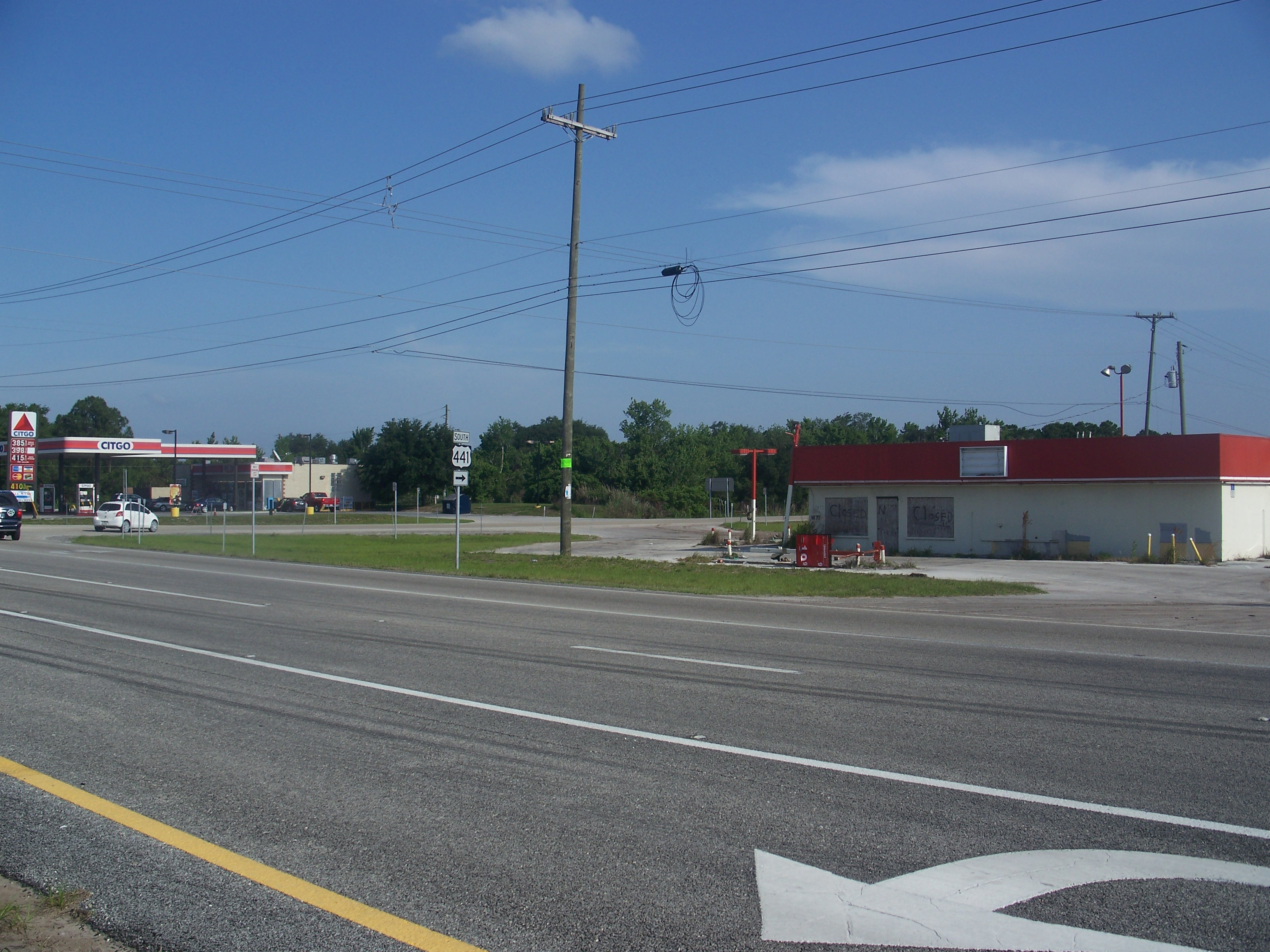 Holopaw, Florida: US 441/192 split: Looking southeast